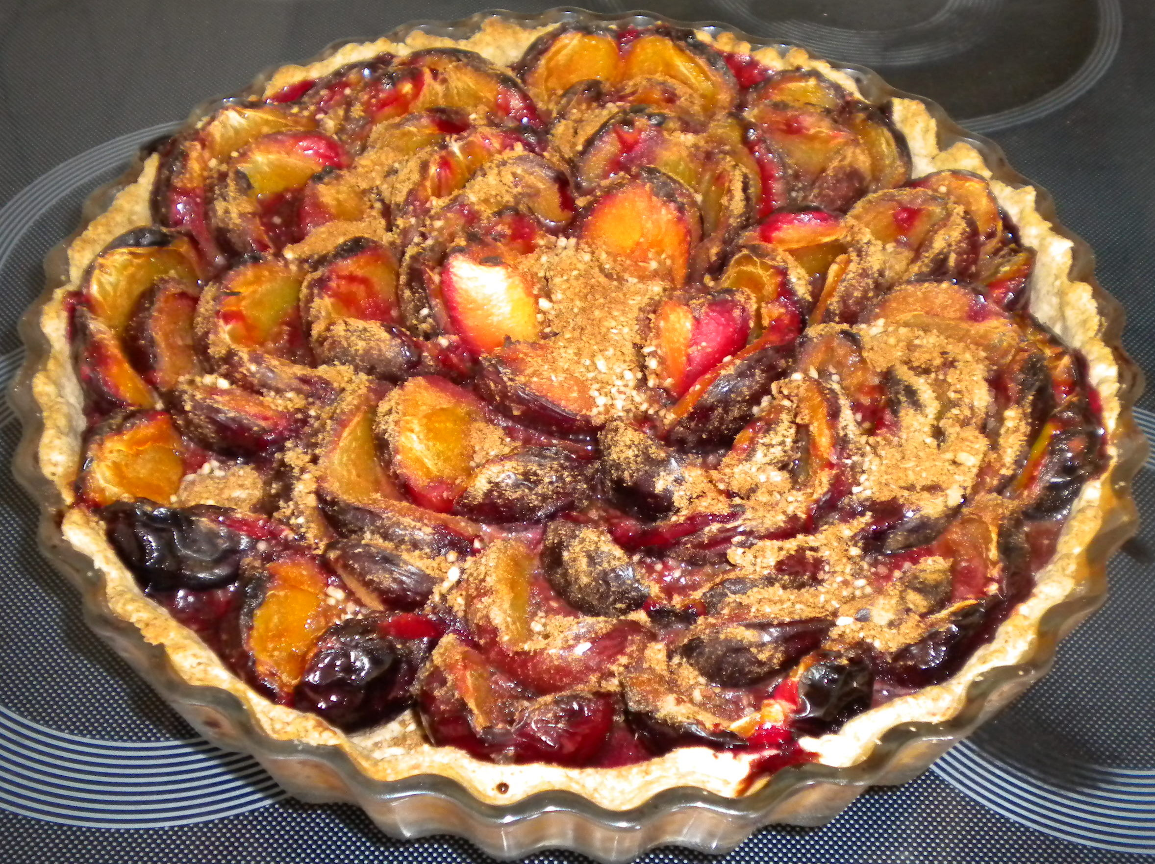 Jeûne Genevois plum pie (Alsatian plum variety)